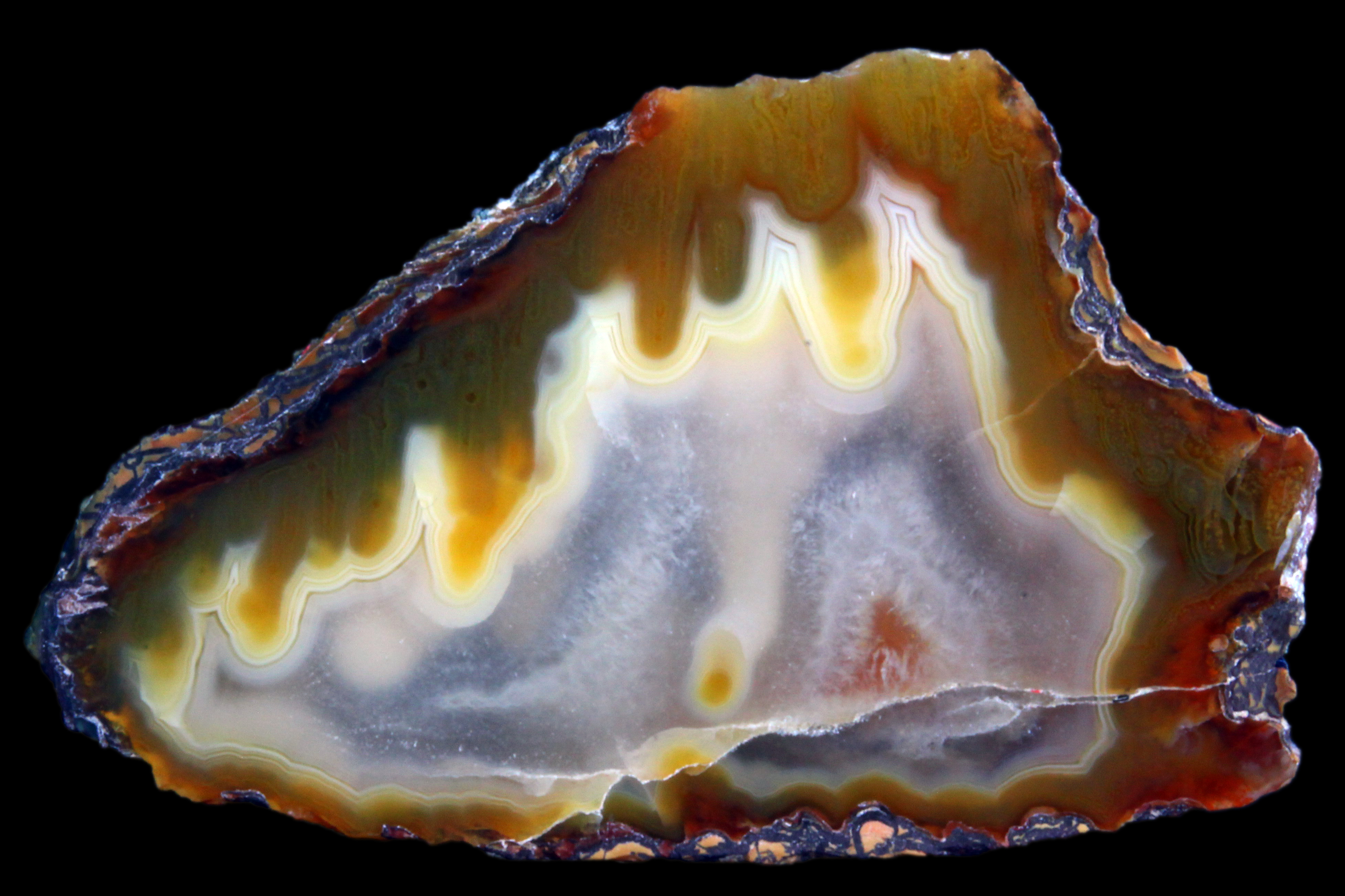 Agate - Agate Creek, Queensland, Australia.